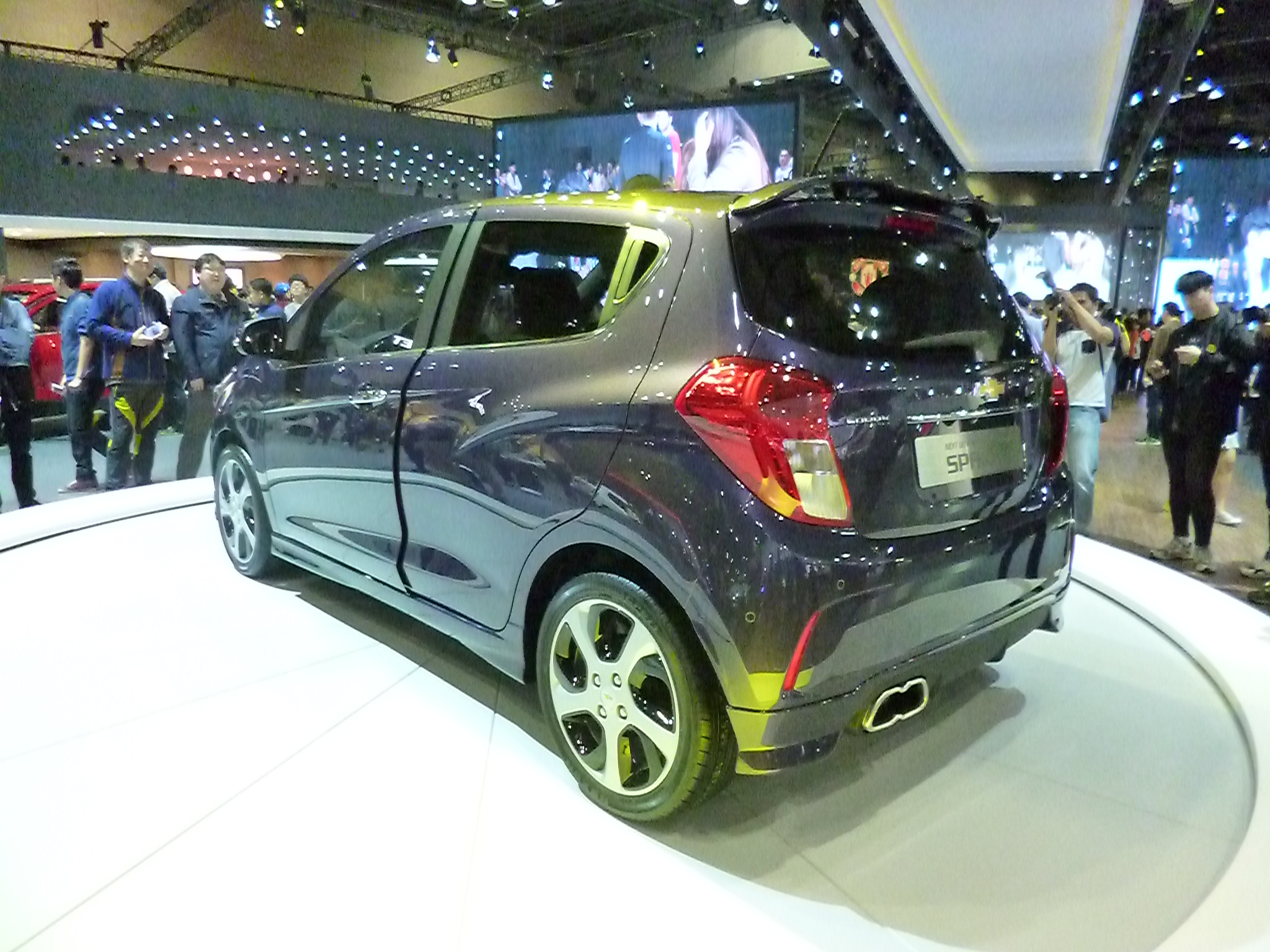 CHEVROLET SPARK